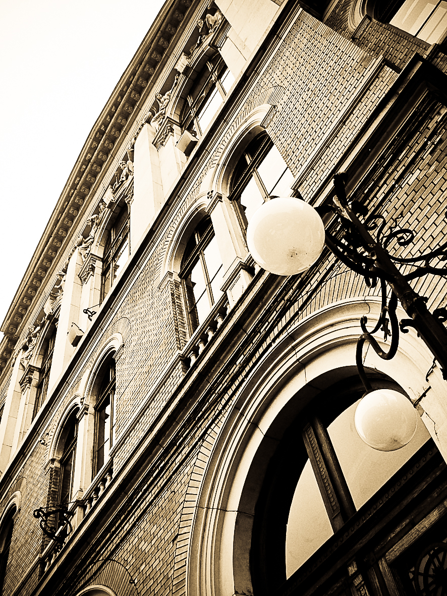 Babes-Bolyai University, Cluj-Napoca, Romania